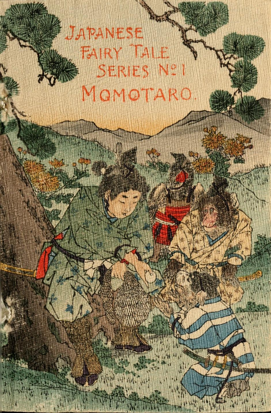 Cover of Momotaro (Japanese Fairy Tale Series Number 1), tr. David Tomson, published by T. Hasegawa in 1886. Depicts Momotaro offering millet dumplings (kibi dango) to dog, with pheasant and monkey watching.